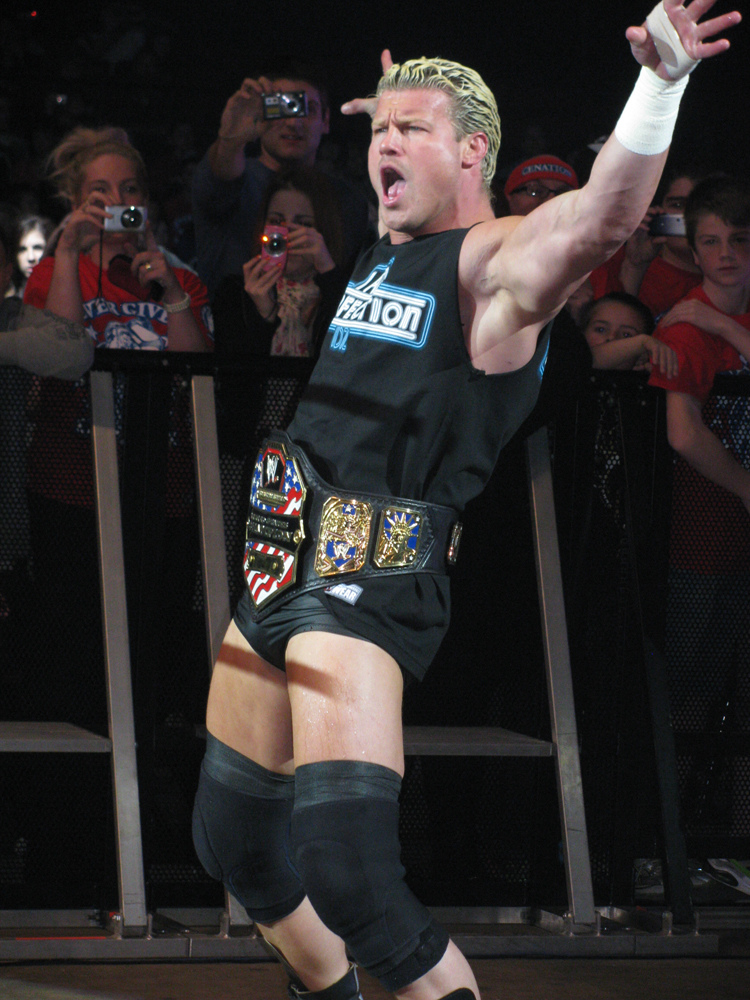 Dolph Ziggler @ Adelaide, South Australia 'RAW' house show on the 4th of July '11